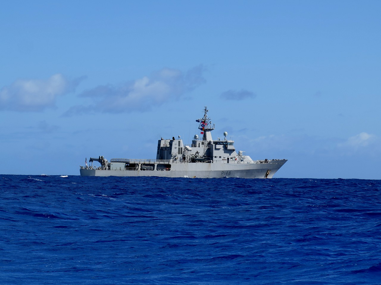 P148 - HMNZS Otago outside of Avarua (Cook Islands)